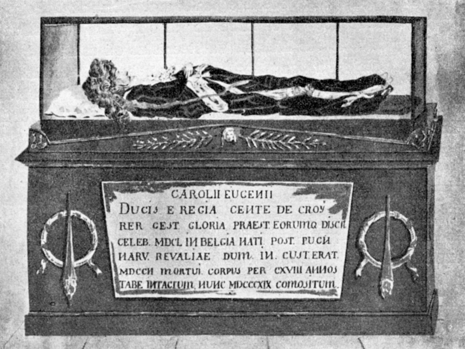 A drawing of Charles Eugene de Croy mummy at St. Nicholas' Church, Tallinn.